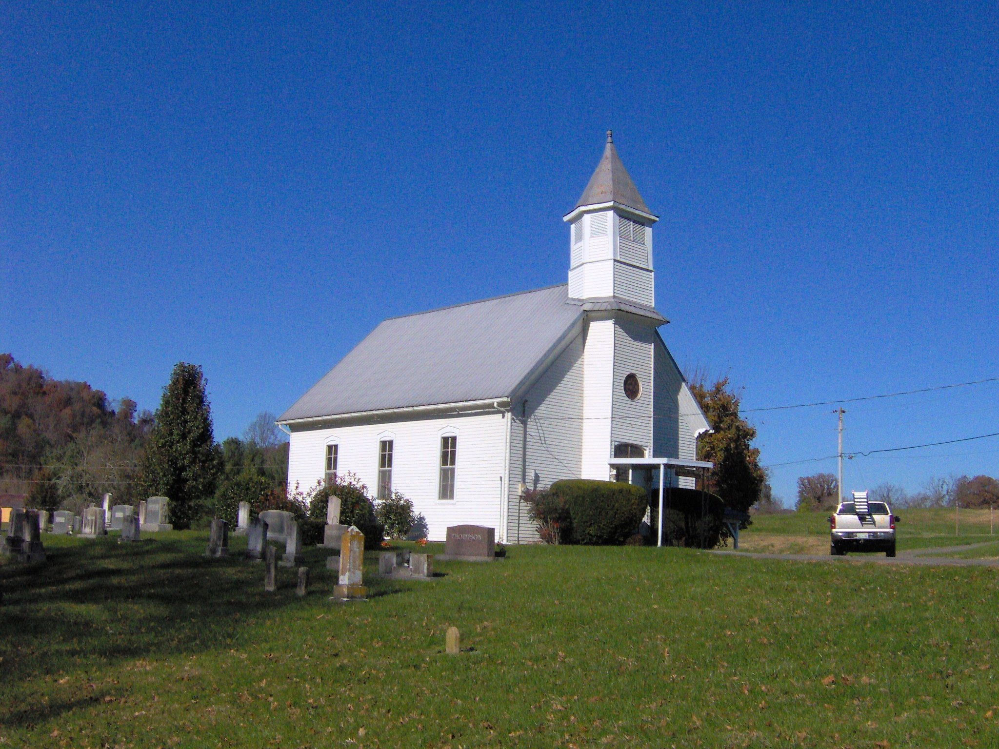 The Ebenezer Methodist Church in Greene County, Tennessee, USA. Ordained by Bishop Francis Asbury in 1795, the church is home to the oldest Methodist congregation in Tennessee. The church pictured is the third to occupy the site, and was completed in 1899. The church and its cemetery are now part of the Earnest Farms Historic District, with Henry Earnest being the cemetery's earliest burial (1809). Coordinates: N 36.19015, W 82.69318